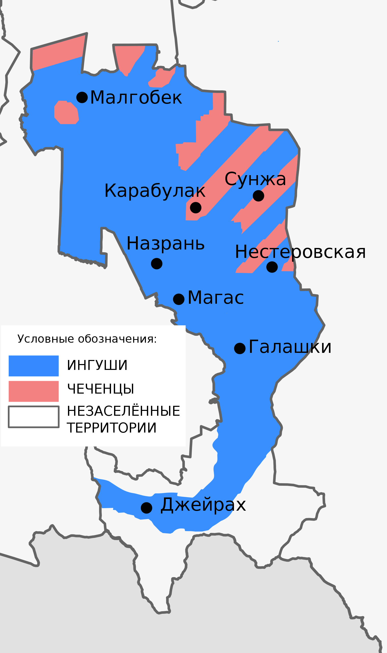 Ethnic map of Ingushetia.